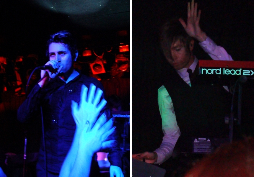 Blaqk Audio performing live in 2007. From left to right: Davey Havok and Jade Puget.